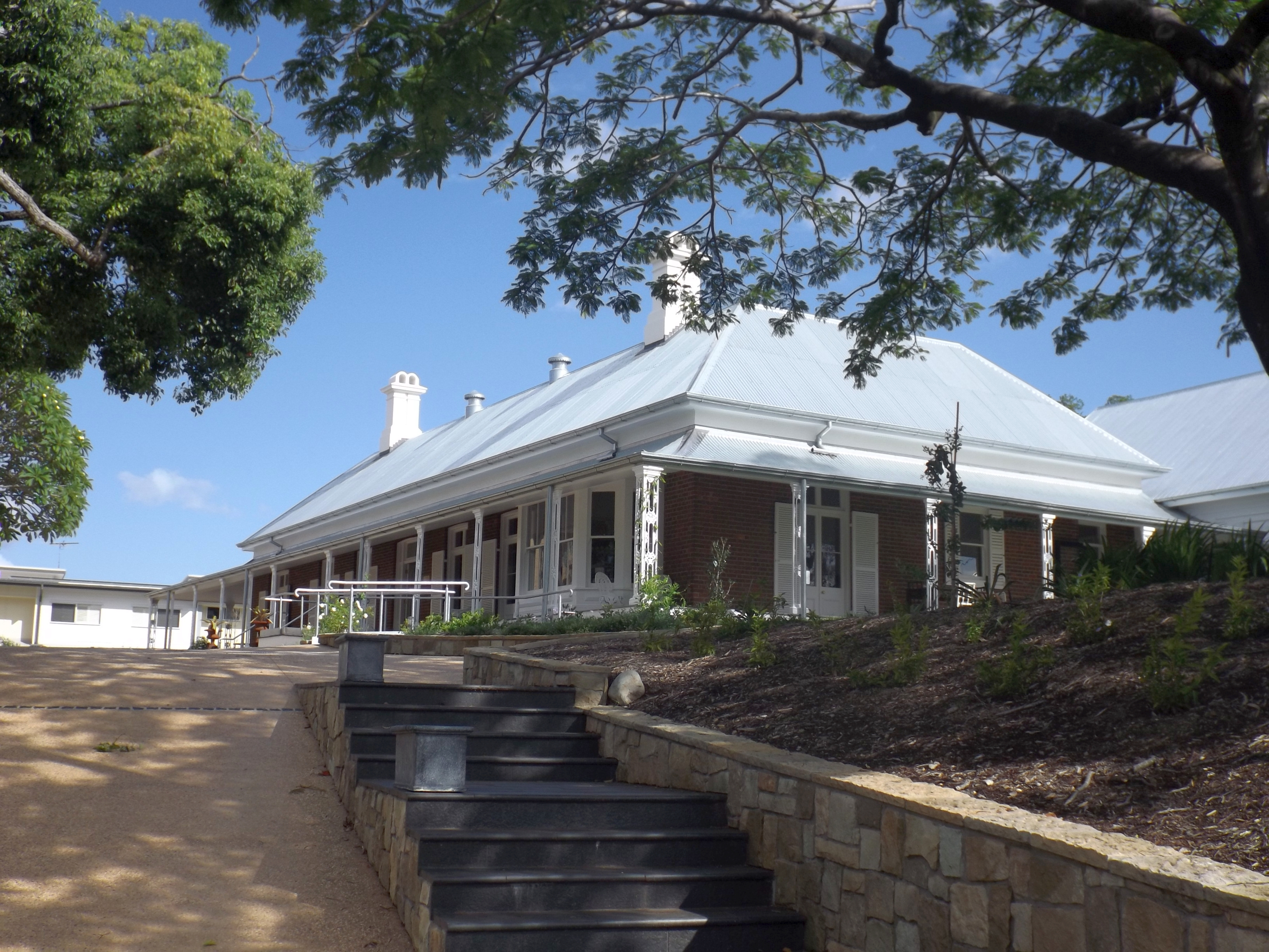 Photo of Hanworth Home of the Aged at East Brisbane, Brisbane, Queensland, Australia.